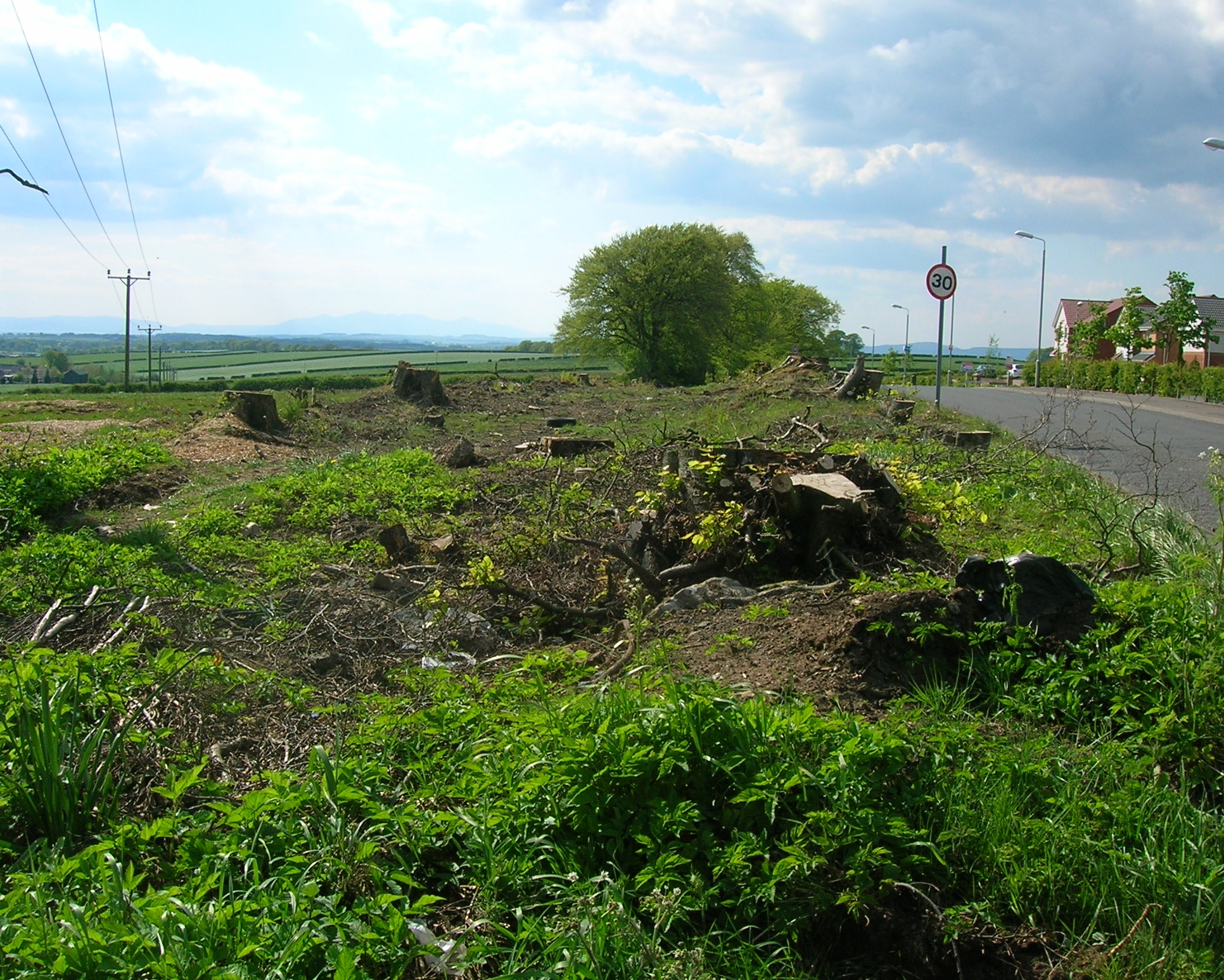 Remains of the Longridge Planting, Stewarton, East Ayrshire, Scotland